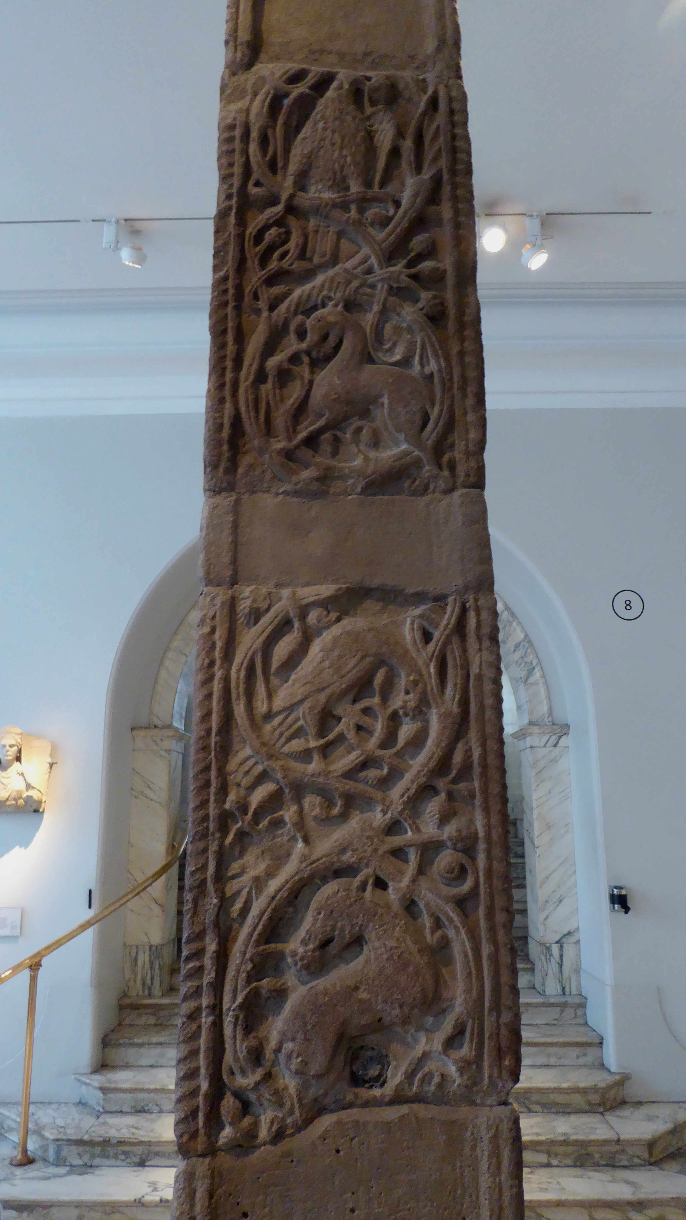 Carved detail on the Easby Cross from Easby Abbey in Yorkshire. Carved in Sandstone during the early ninth century. Now on display at the Victoria and Albert Museum in West London (Museum number A 88-1930).